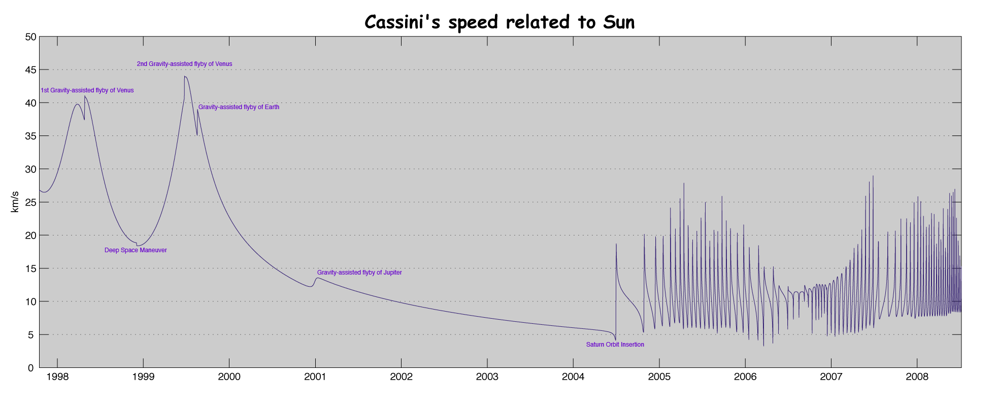 Cassini's speed related to Sun. The various gravity assists form visible peaks on the left, while the periodic variation on the right is caused by the spacecraft's orbit around Saturn. The data was from JPL Horizons Ephemeris System. The speed above is in kilometers per second. Note also that the minimum speed achieved during Saturnian orbit is more or less equal to Saturn's own orbital velocity, which is the ~5 km/s velocity which Cassini matched to enter orbit.